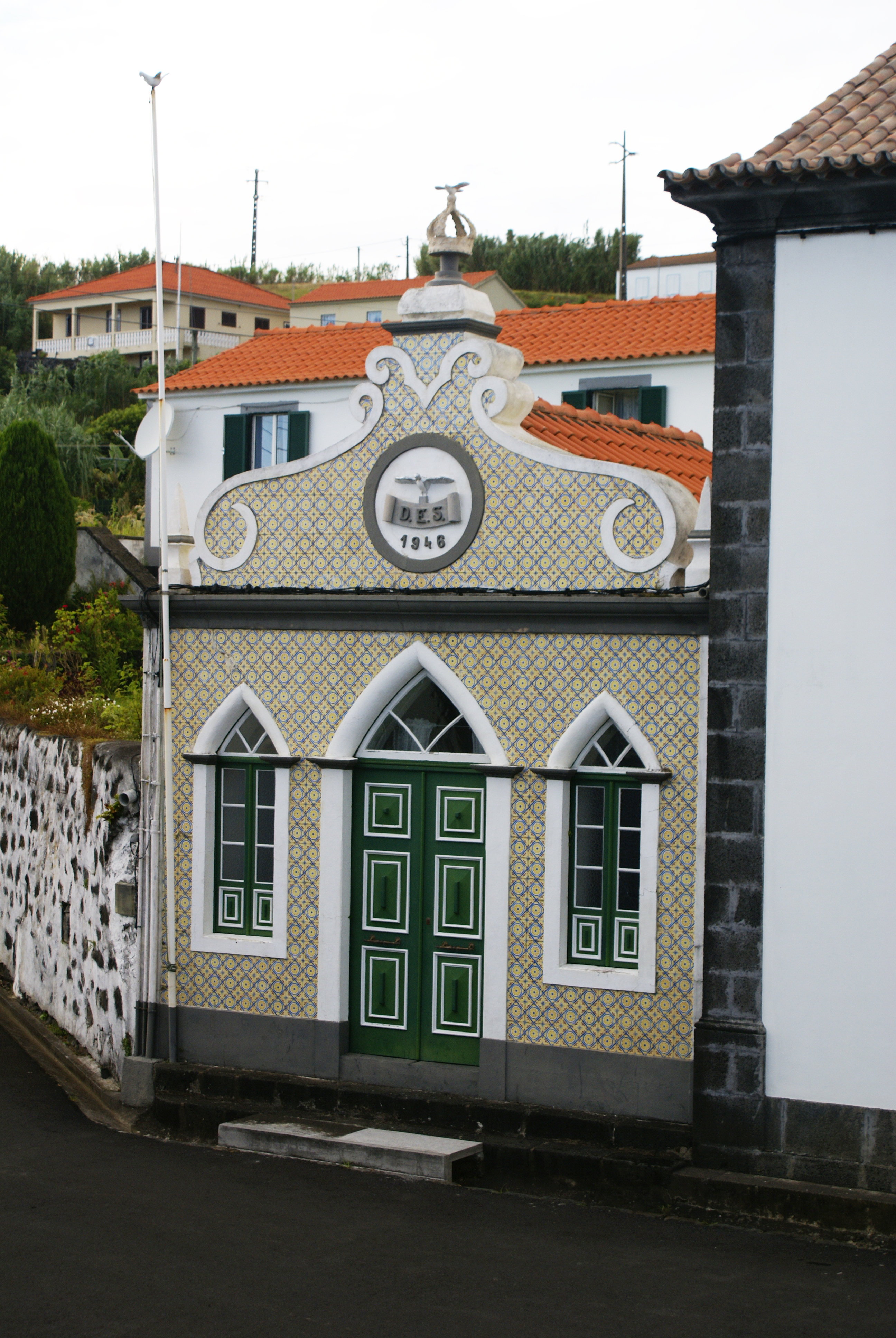 The Império do Espírito Santo da Coroa Velha, Castelo Branco, Horta, Faial (Azores), Portugal